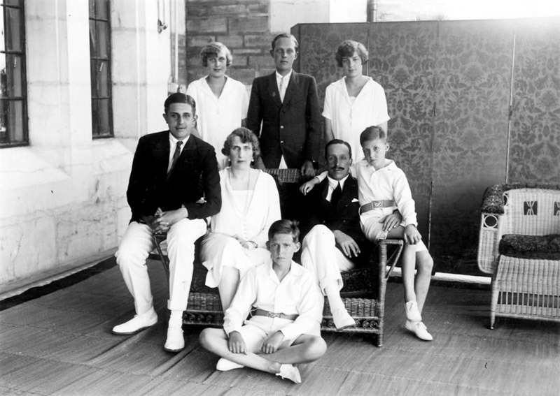 Alfonso XIII and Queen Victoria Eugenia with their six children in the Royal Palace of La Magdalena in Santander. Standing behind their parents the Infanta María Cristina, the Prince of Asturias and the Infanta Beatriz. On his mother’s right the Infante Jaime, sitting on the floor the Infante Juan and the Infante Gonzalo is beside his father.